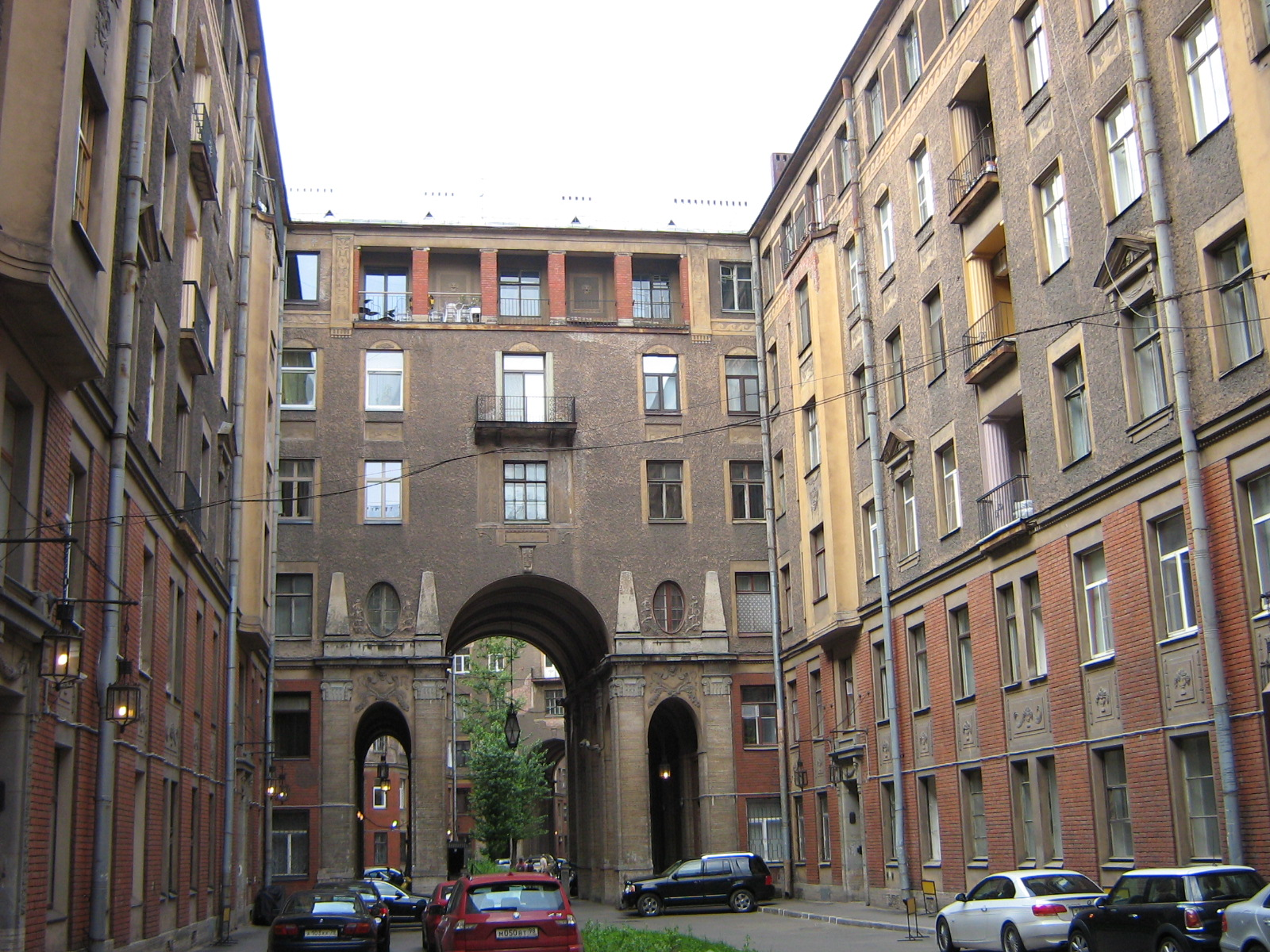 "Tolstovsky dom" (House of M.P.Tolstoy): 15-17 Rubinstein street, Saint-Petersburg, Russia. Architect Fedor Lidval, 1910-1912.